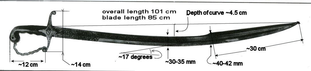 Dimensions of sword of Sultan Beyazid II